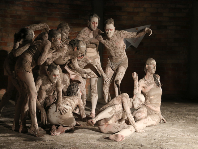 Street performance, Activism for artists Belef Festival Belgrade 2017